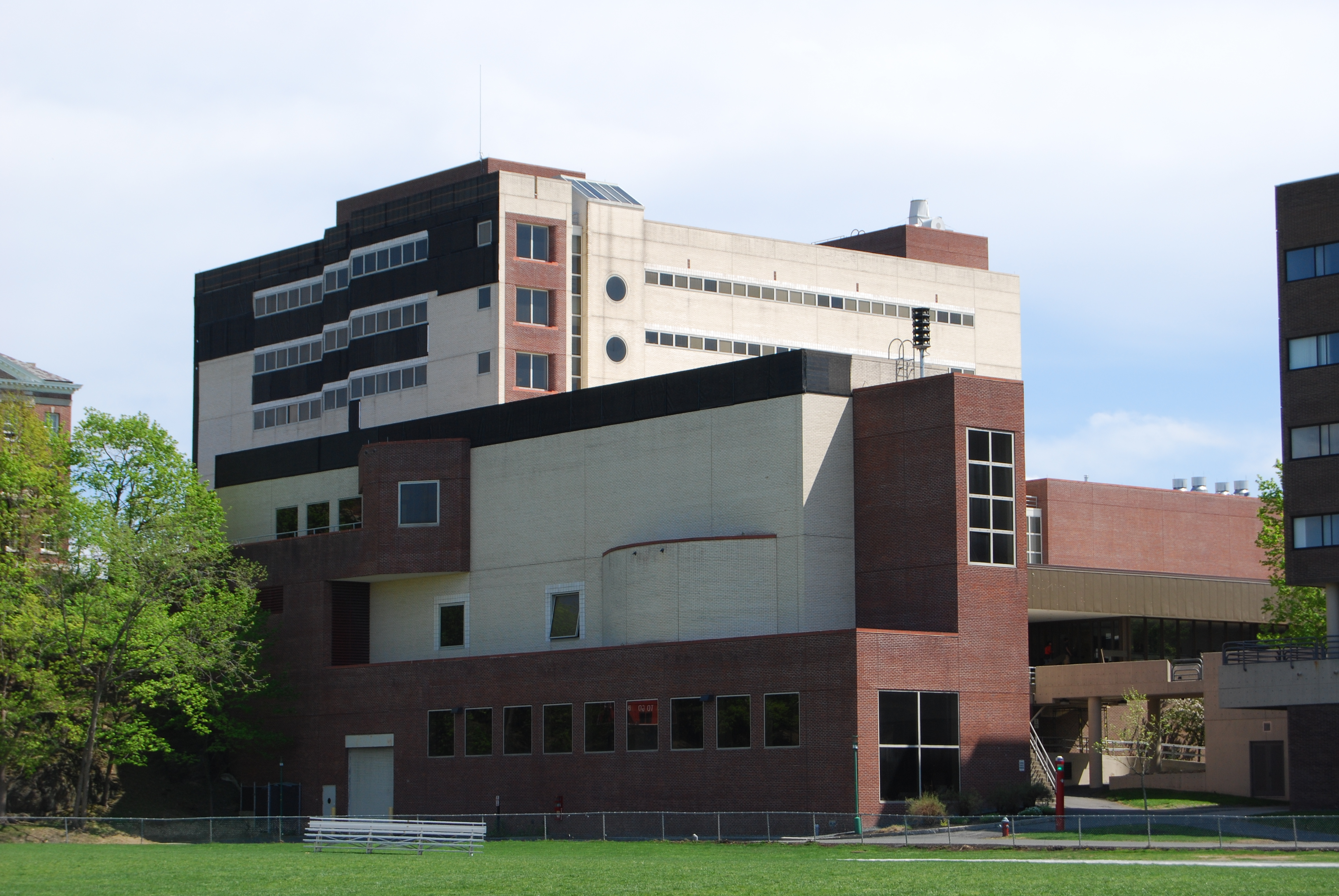 Low Center for Industrial Innovation on the campus of Rensselaer Polytechnic Institute in Troy, New York, United States